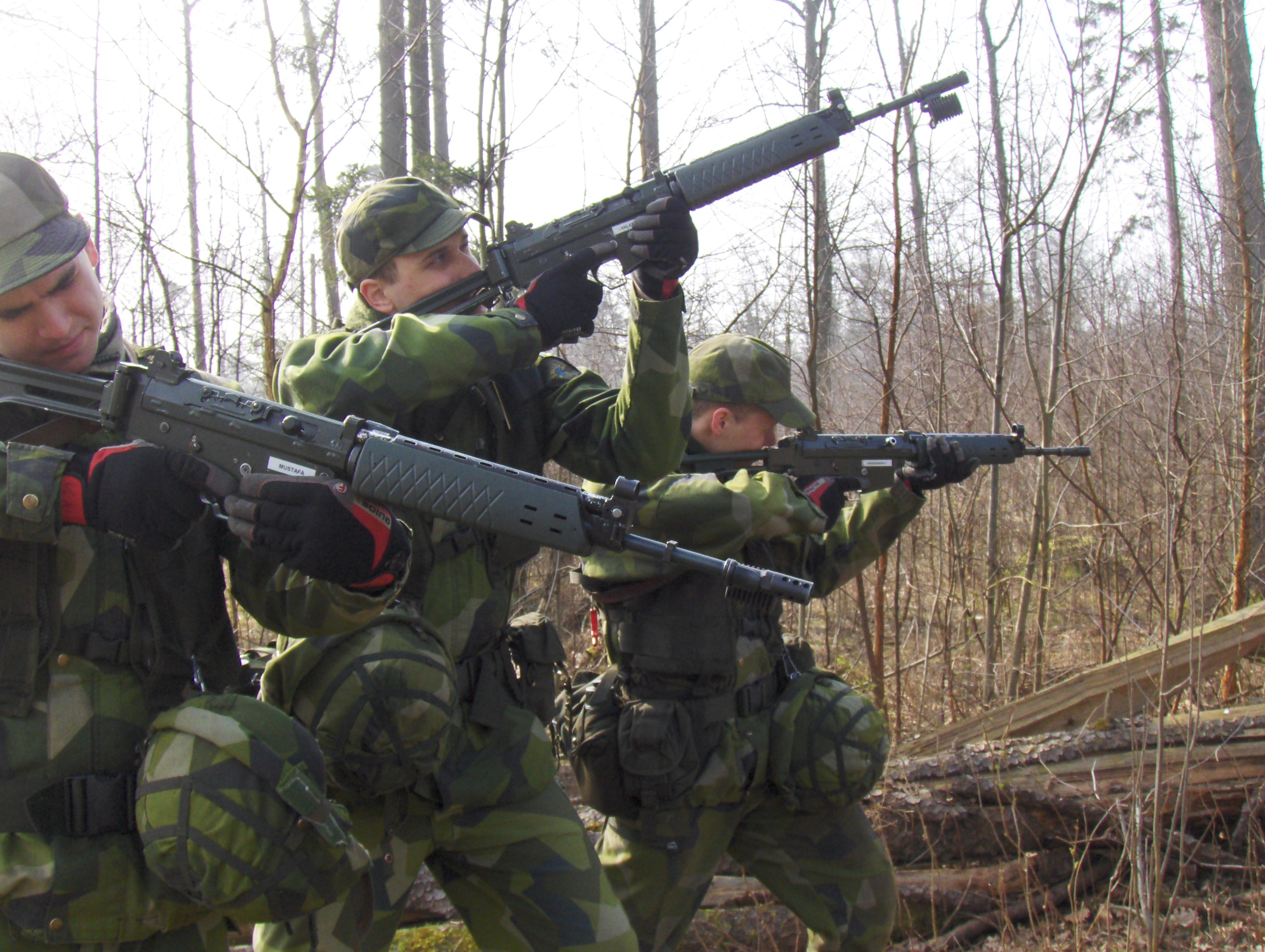 Three Swedish conscripts aiming with the AK5 (Swedish version of the FN-FNC)